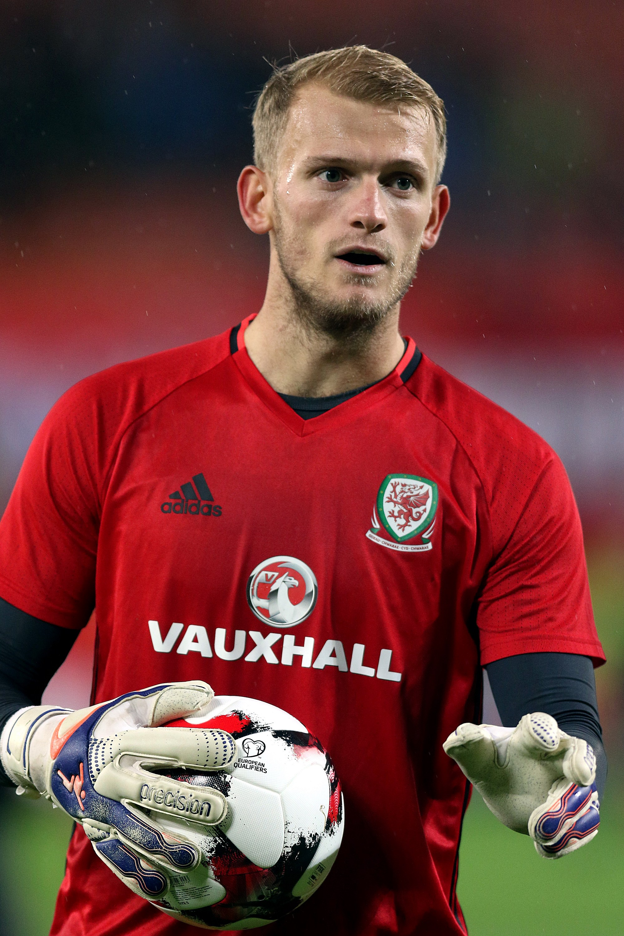 2018 FIFA World Cup qualification – UEFA Group D) – Austria (red shirts) vs. Wales (white shirts) 2-2 (1-2) – 2016-10-06 in Vienna, Ernst-Happel-Stadion – The photo shows goalkeeper Adam Davies (Wales).